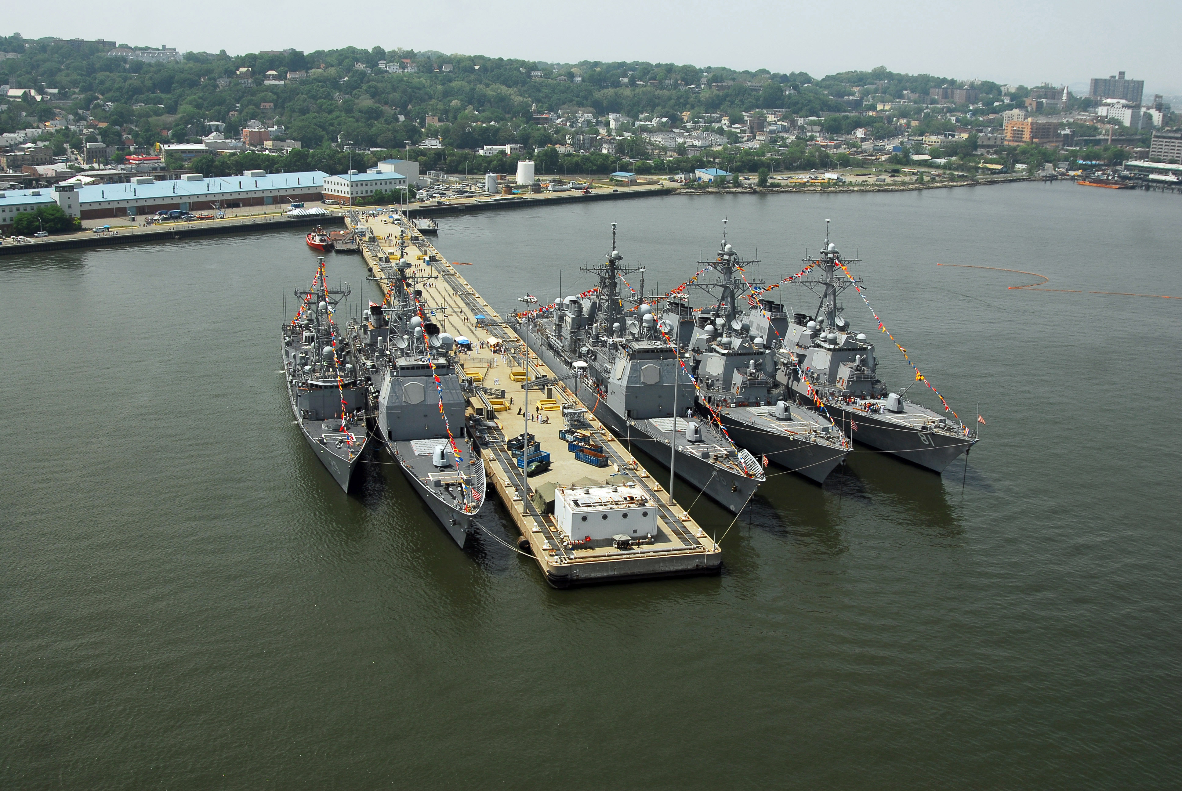 STATEN ISLAND, N.Y. (May 28, 2007) - From left, guided-missile frigate USS Stephen W. Groves (FFG 29), guided-missile cruisers USS Hue City (CG 66) and USS San Jacinto (CG 56), and guided-missile destroyers USS Oscar Austin (DDG 79) and USS Winston S. Churchill (DDG 81) are moored as part of Fleet Week. The 20th annual Fleet Week New York City provides an opportunity for citizens of New York City and the surrounding Tri-State area to meet more than 3,000 Sailors, Marines and Coast Guardsmen, May 23-31. U.S. Navy photo by Mass Communication Specialist 3rd Class Kenneth R. Hendrix (RELEASED)